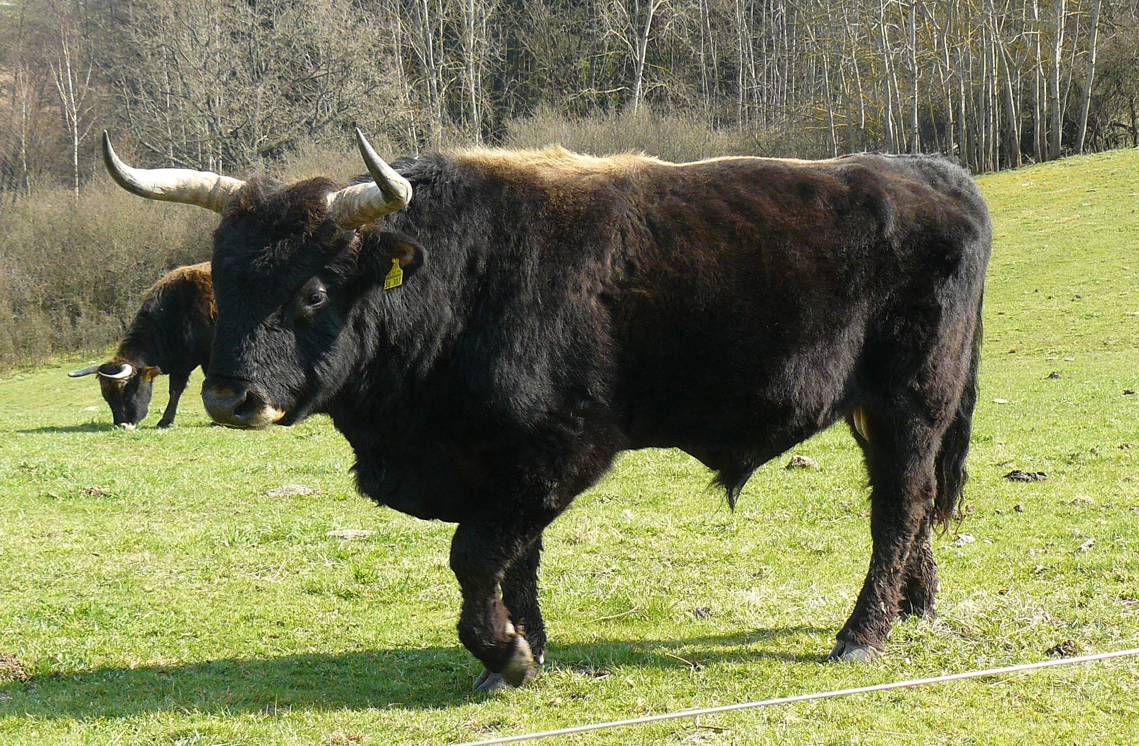 Heck cattle bull in a large enclosure in the valley of the Aurach river close to Bamberg in Upper Franconia, Germany